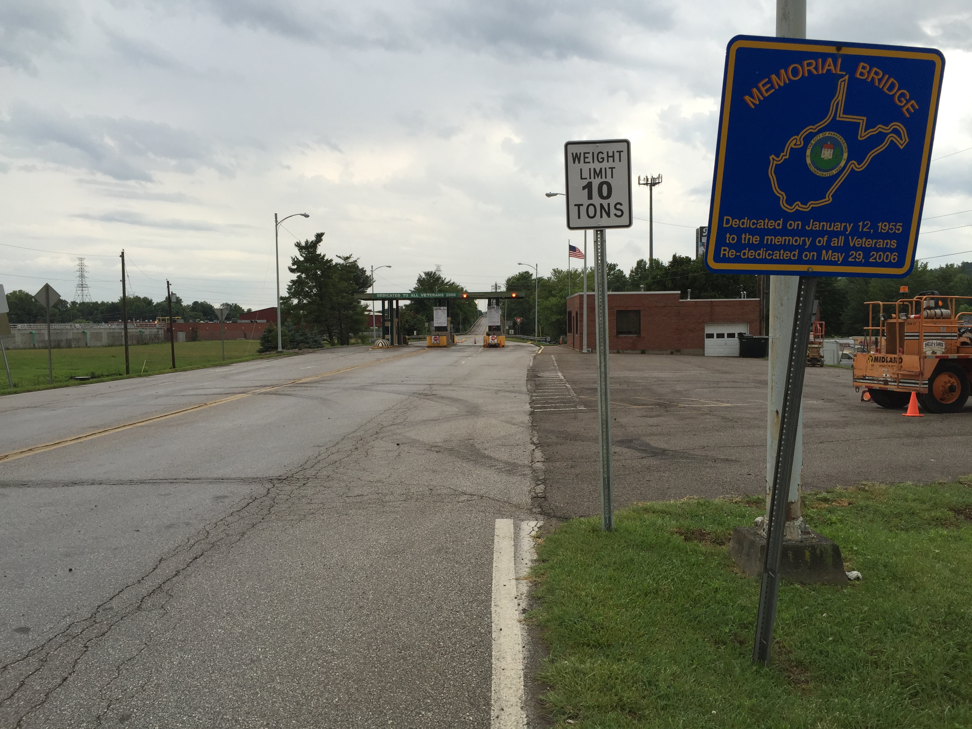 View west along West Virginia State Route 140 (Memorial Bridge) at West Virginia State Route 14 and West Virginia State Route 68 (Ohio Avenue) in Parkersburg, Wood County, West Virginia